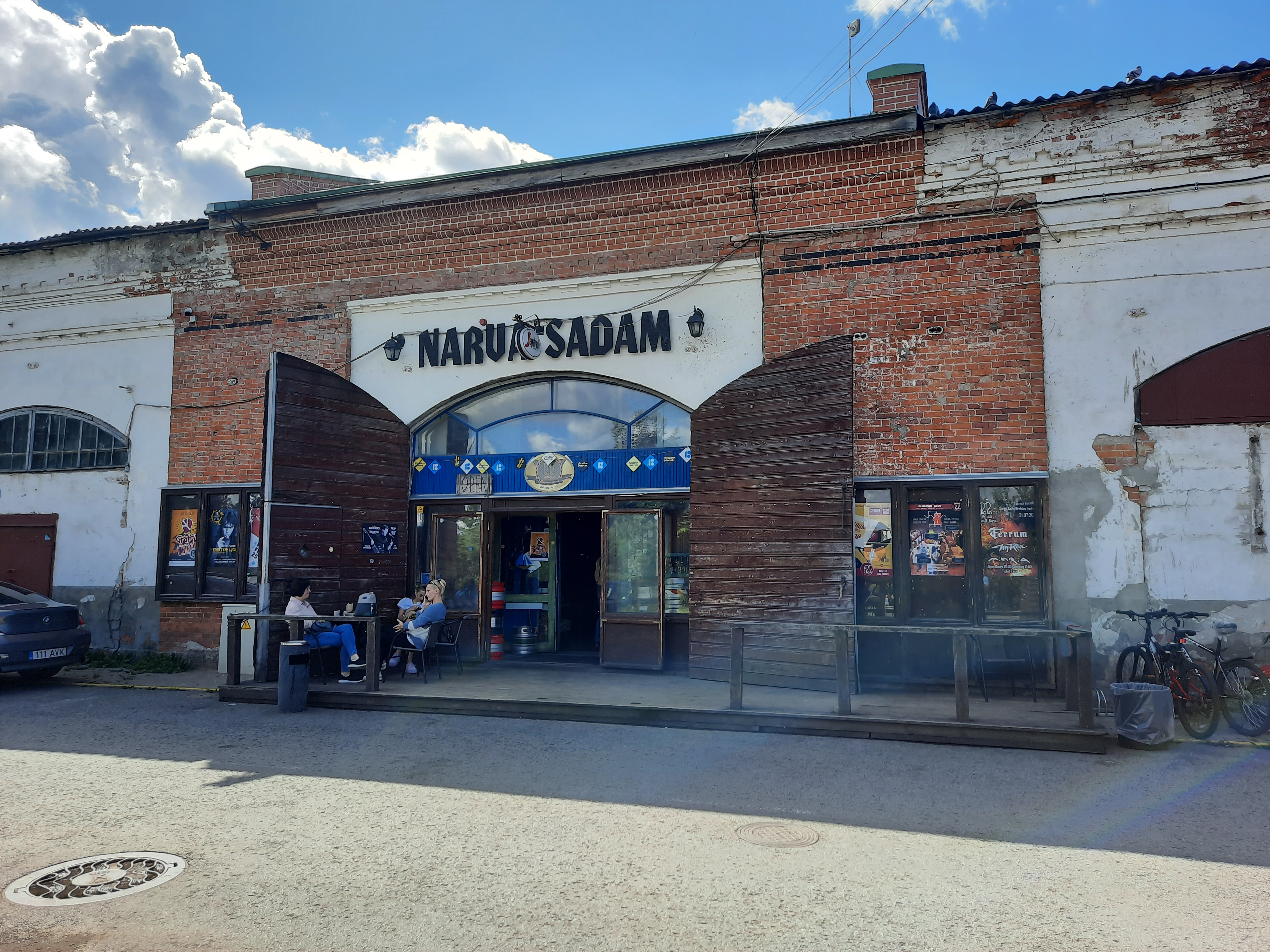 Kreenholm Manufacturing Company